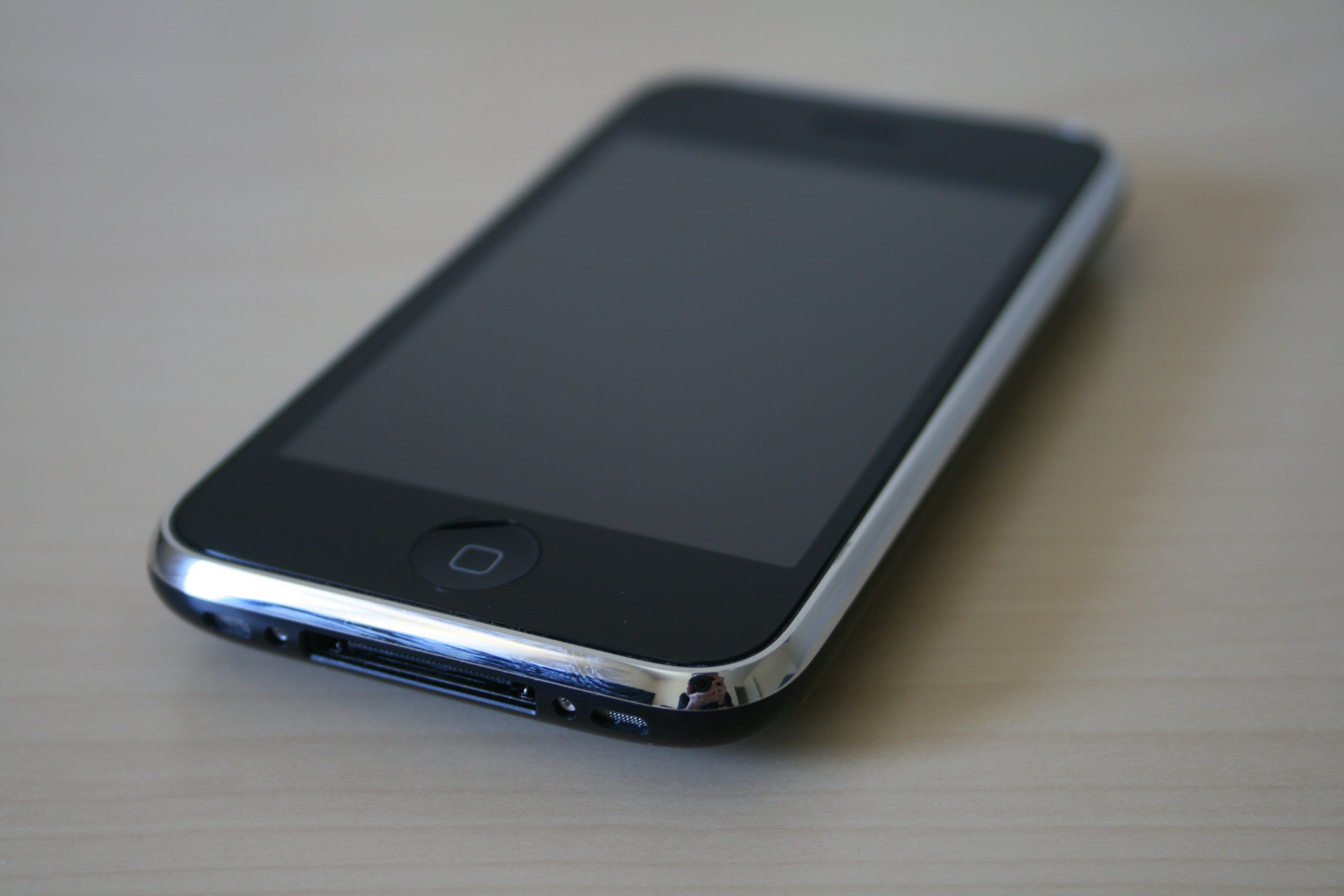 The front and base of the iPhone 3GS.